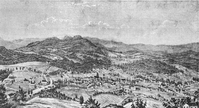 Asheville, North Carolina, as it appeared in 1854.